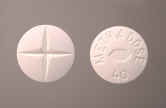 From: United States Department of Justice [1]